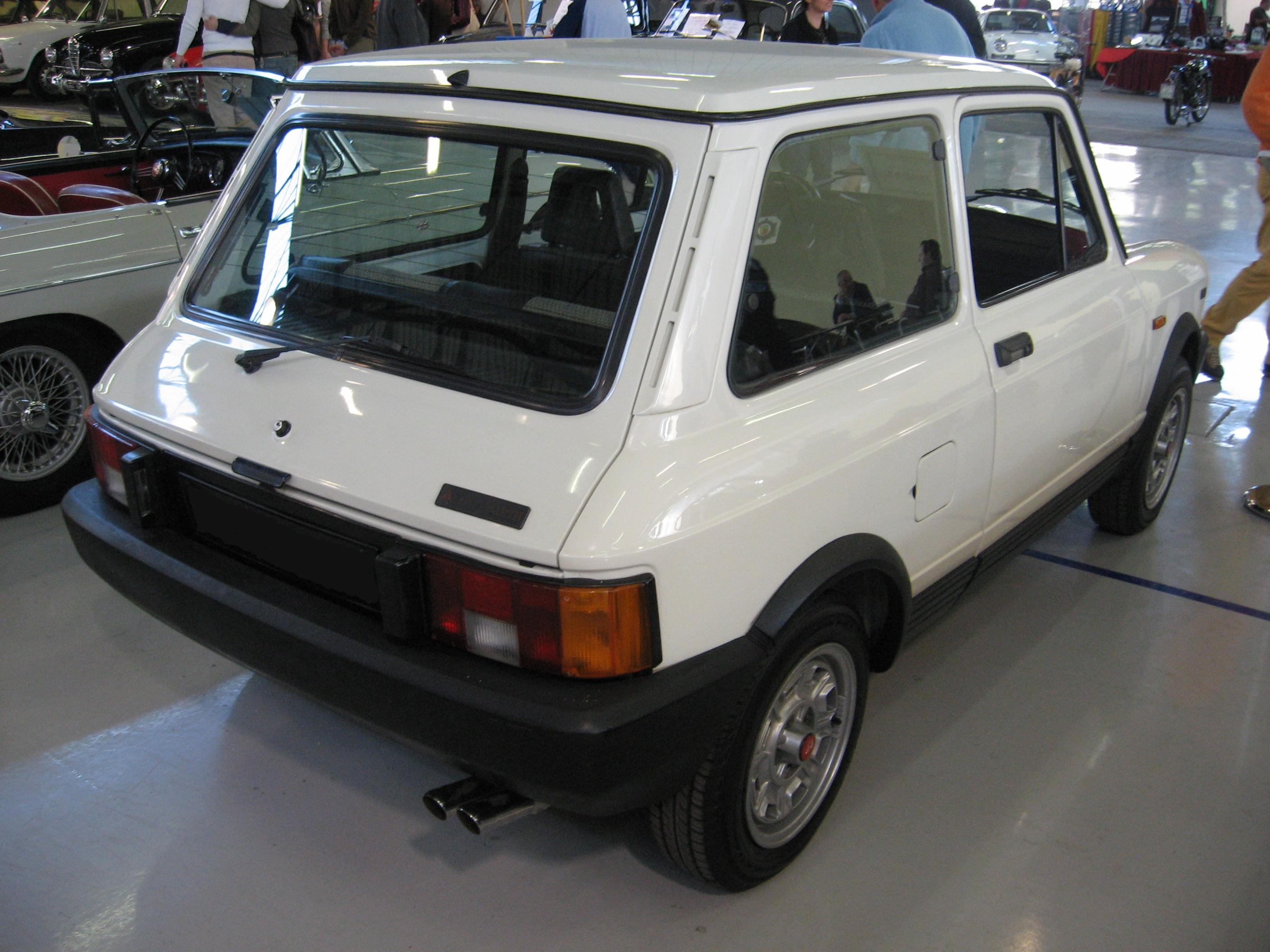 Subject:Autobianchi A112 Abarth 6ª serie del 1982 Author: Luc106 Date: 18th March 2007 City/Country: Forlì (Italy) Event: Old Time Show I release all rights in the public domain.